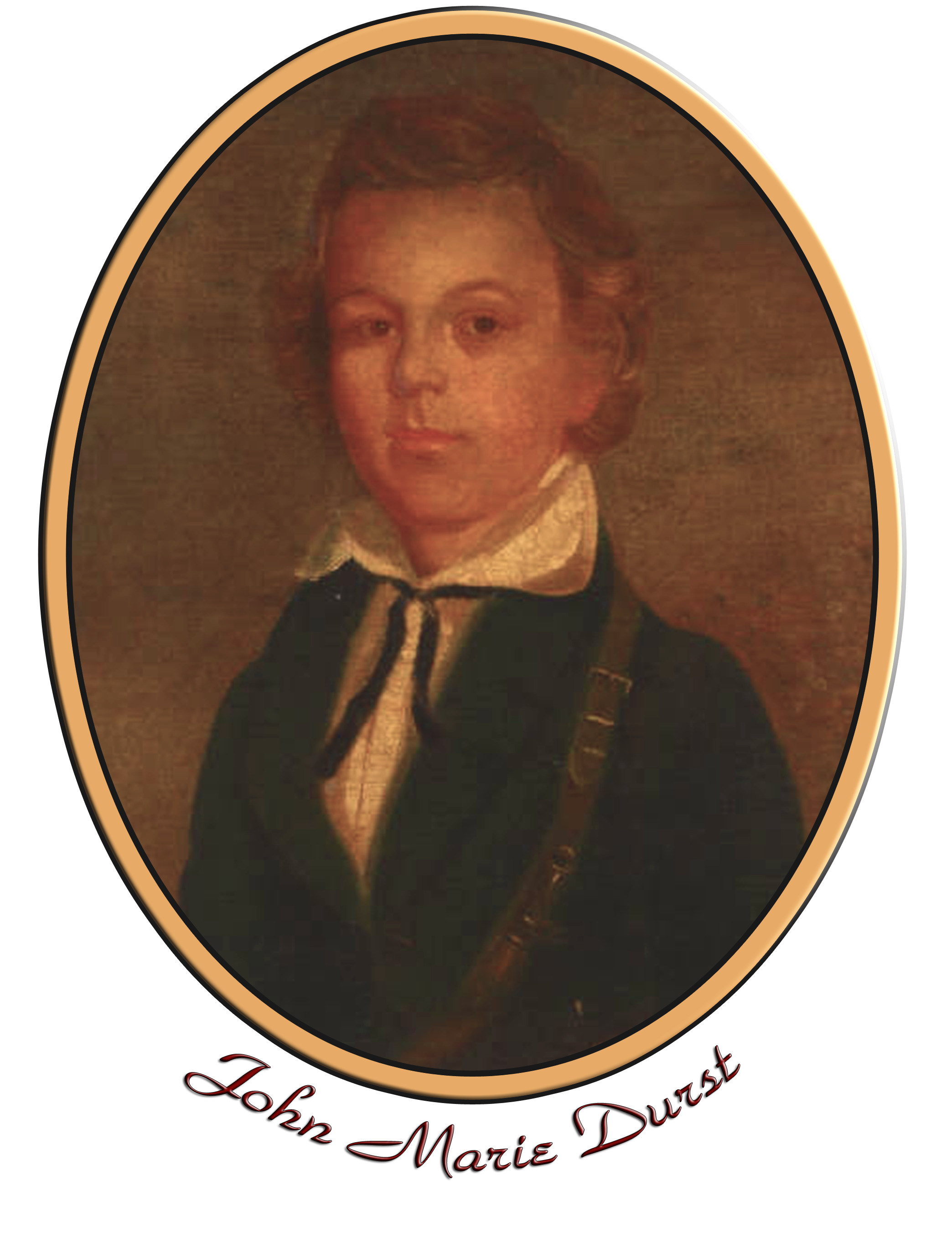 An oil portrait of John Marie Durst, probably painted while he was at school in New Orleans, circa 1806 [photo of painting originally in Davenport heirs possession until ca 1824].